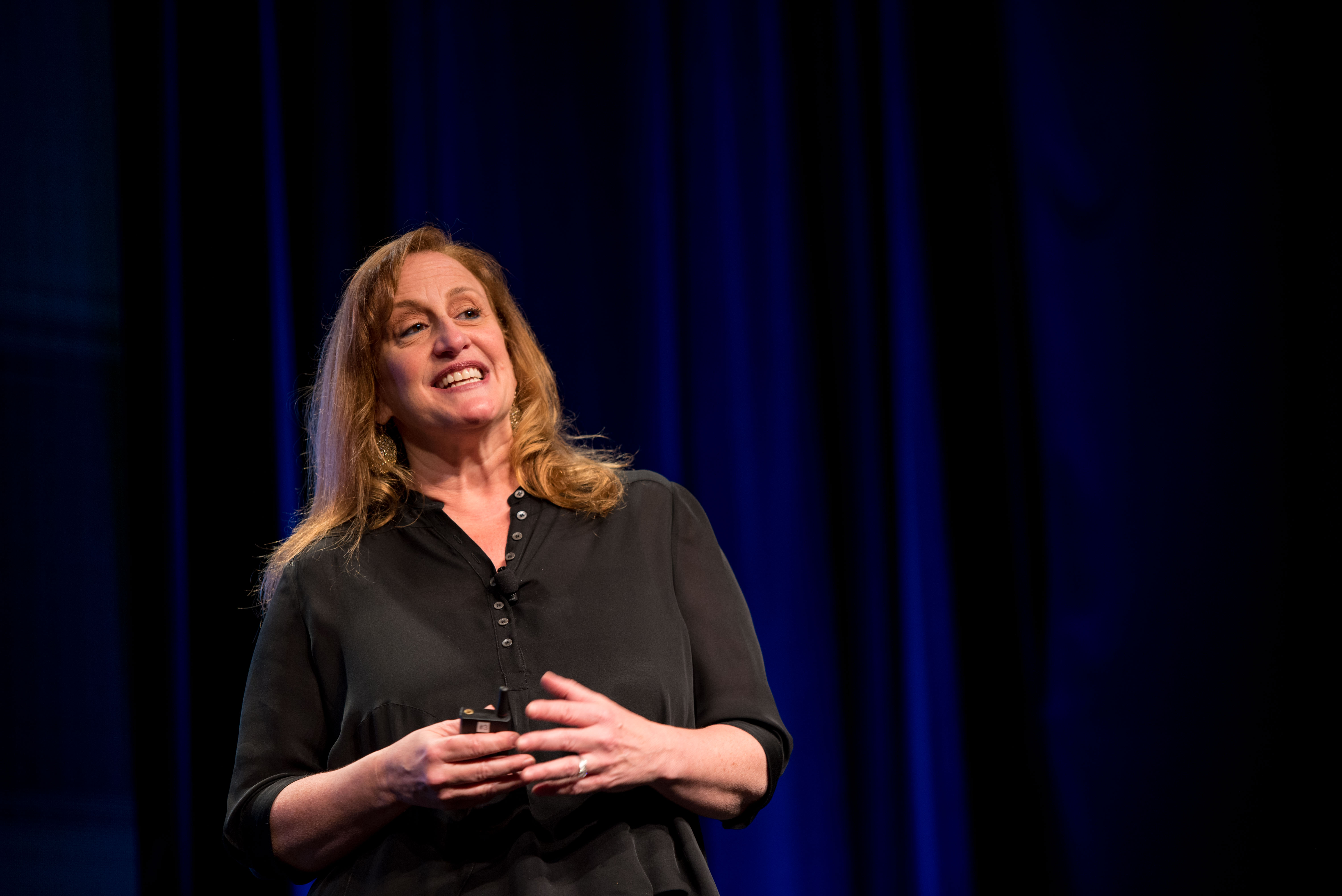 Cindy Chupack 2017